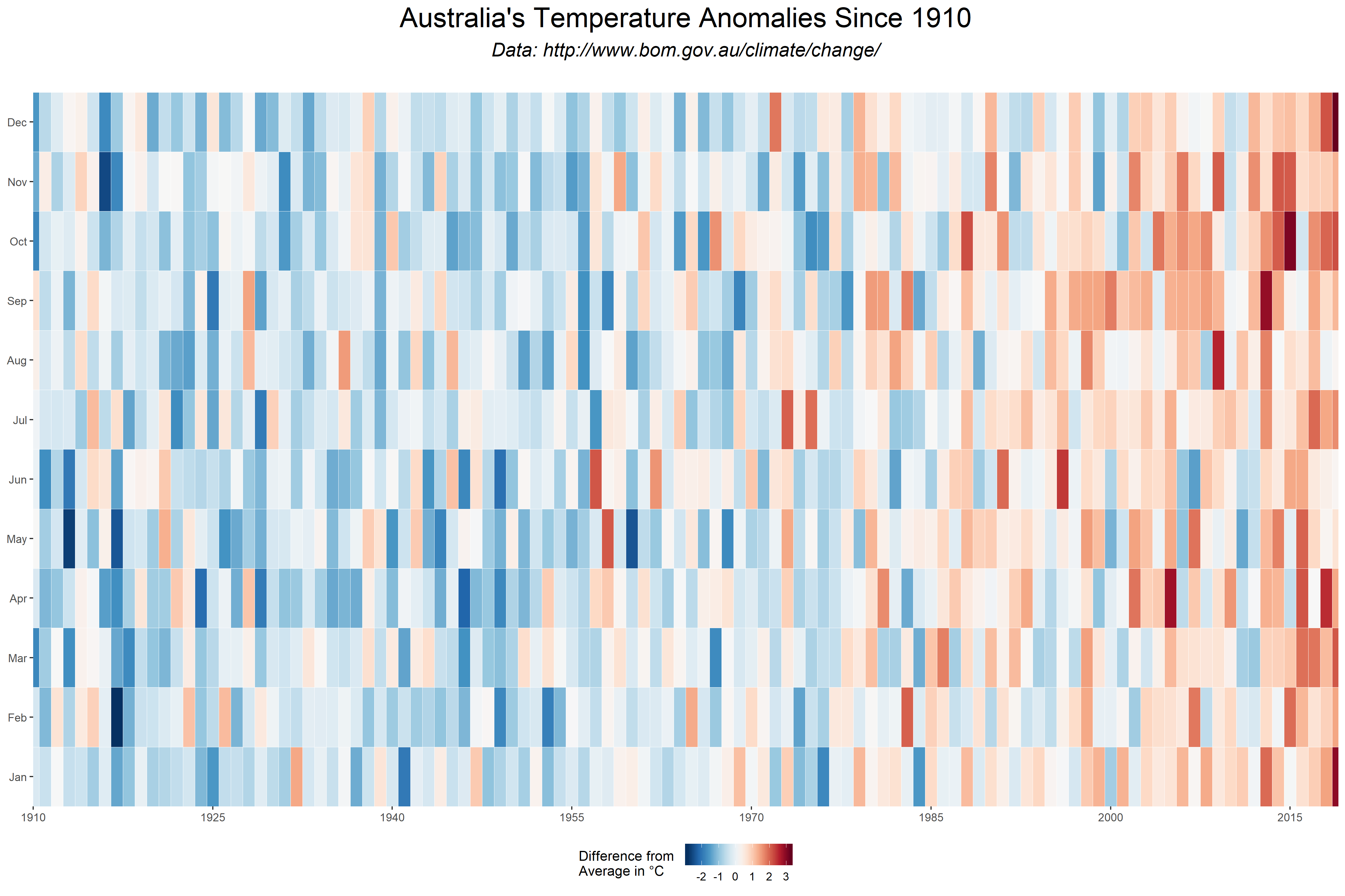 Heatmap showing how hot or cold each month is in Australia compared to the 1960-1990 average for that month. data from Australian Government bureau of meteorology My ggplot2 rstats code to recreate this is at